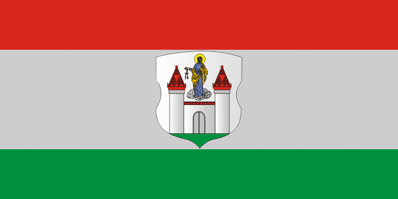 Flag of Barysau, Minsk region, Belarus